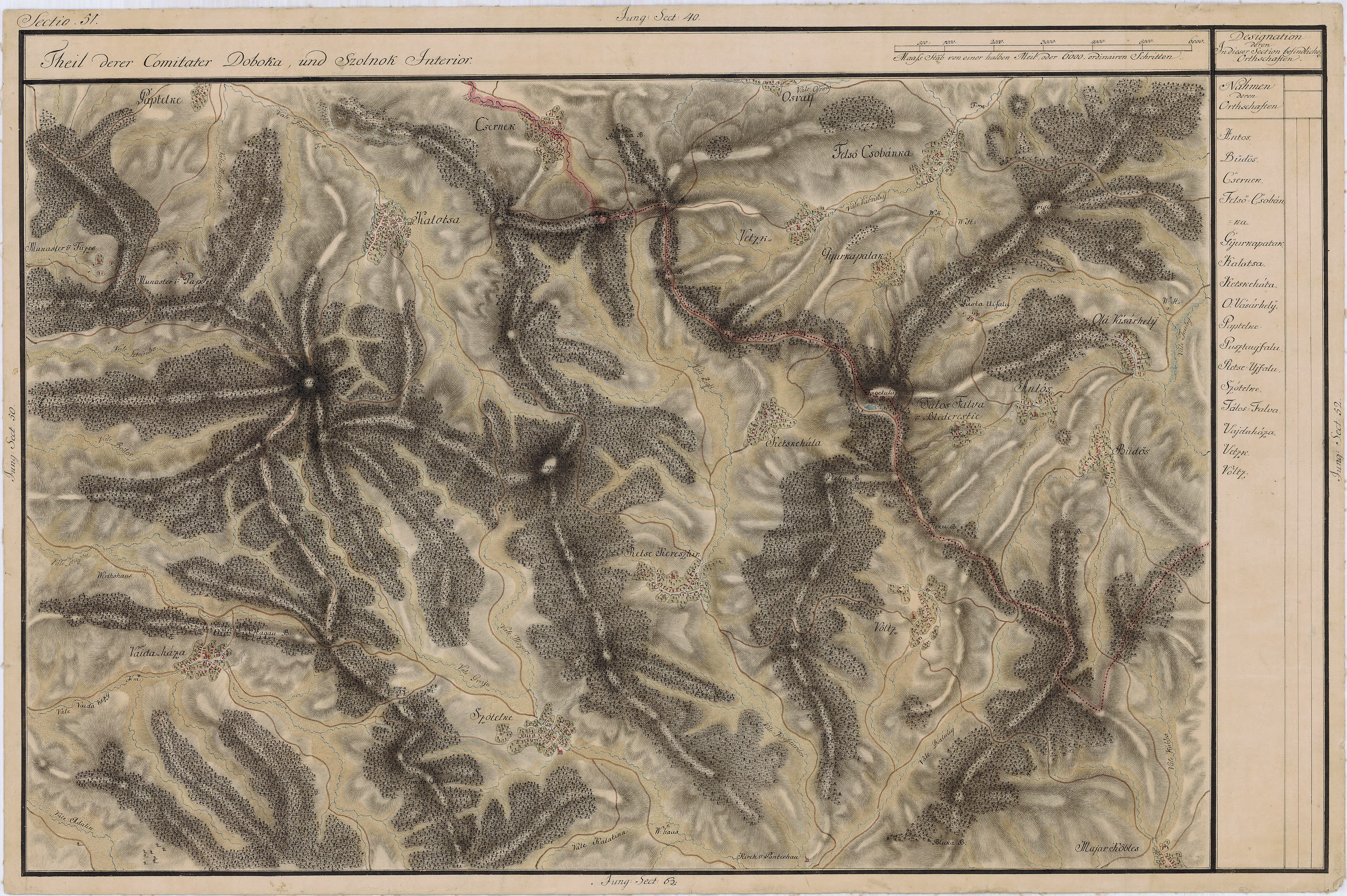 Grand Duchy of Transylvania, 1769-1773. Josephinische Landaufnahme pg.051